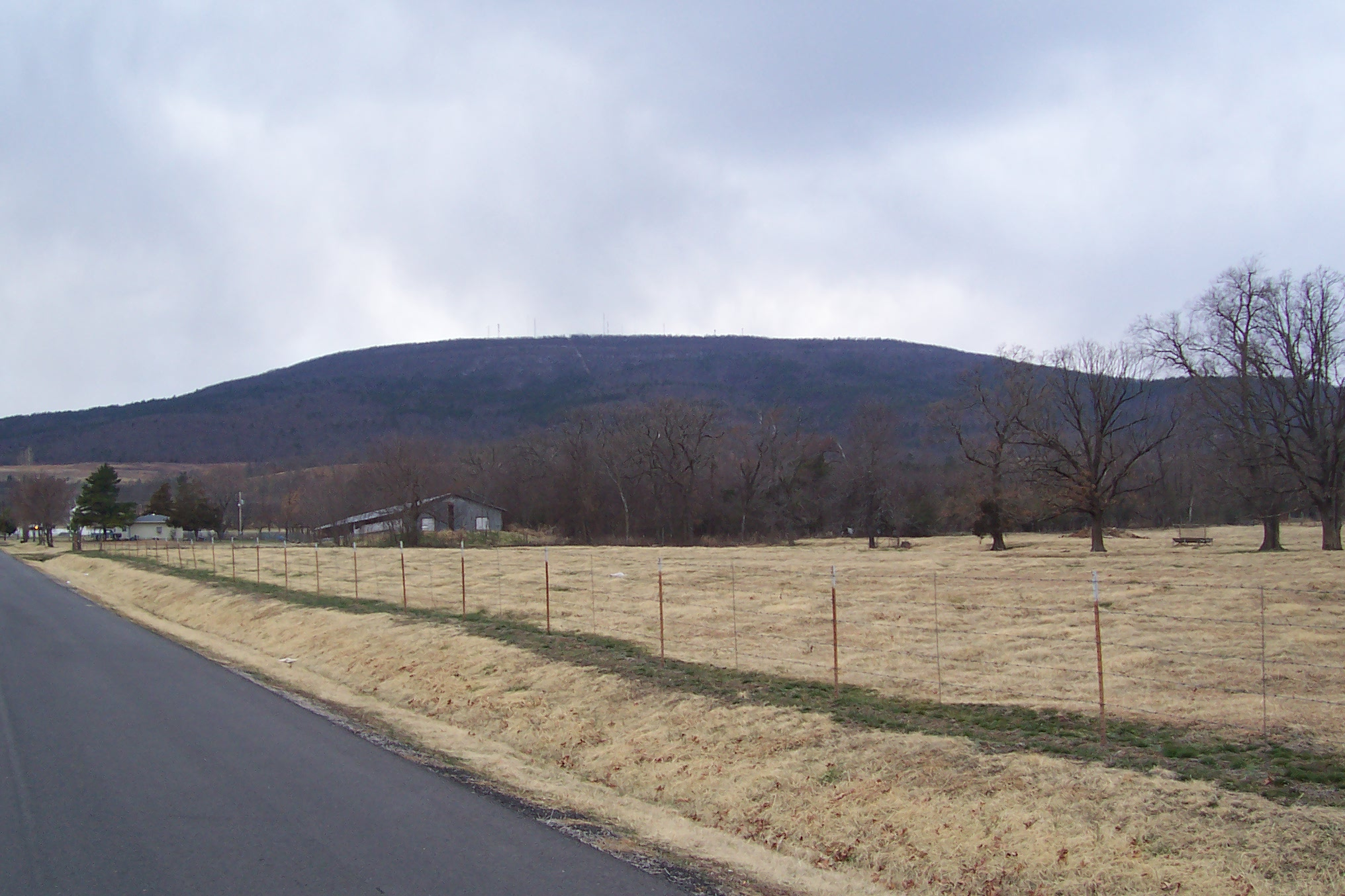 Cavanal Hill, taken on Franzini Road, in Poteau, Oklahoma.